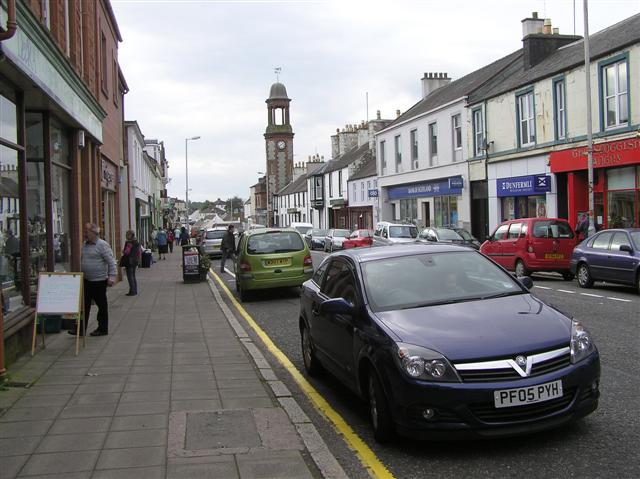 King Street, Castle Douglas Heading south-west